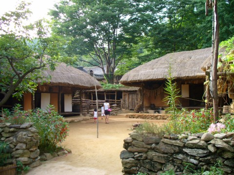 Display of traditional houses at the Korean Folk Village